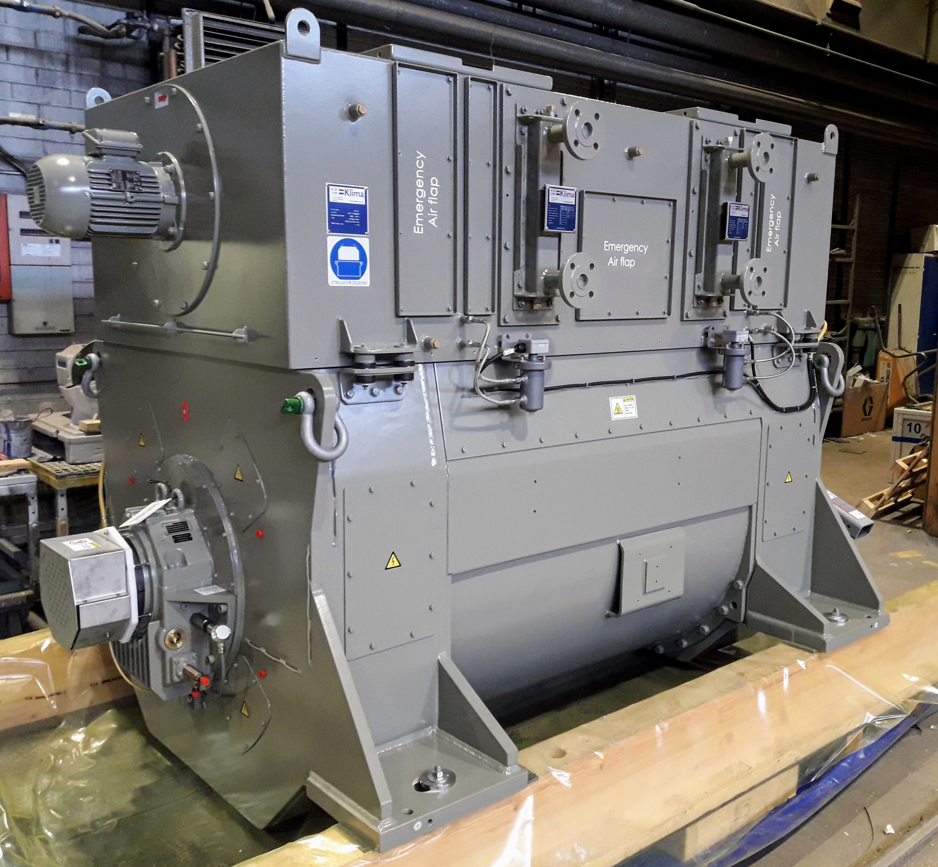 Permanent magnet generator for marine